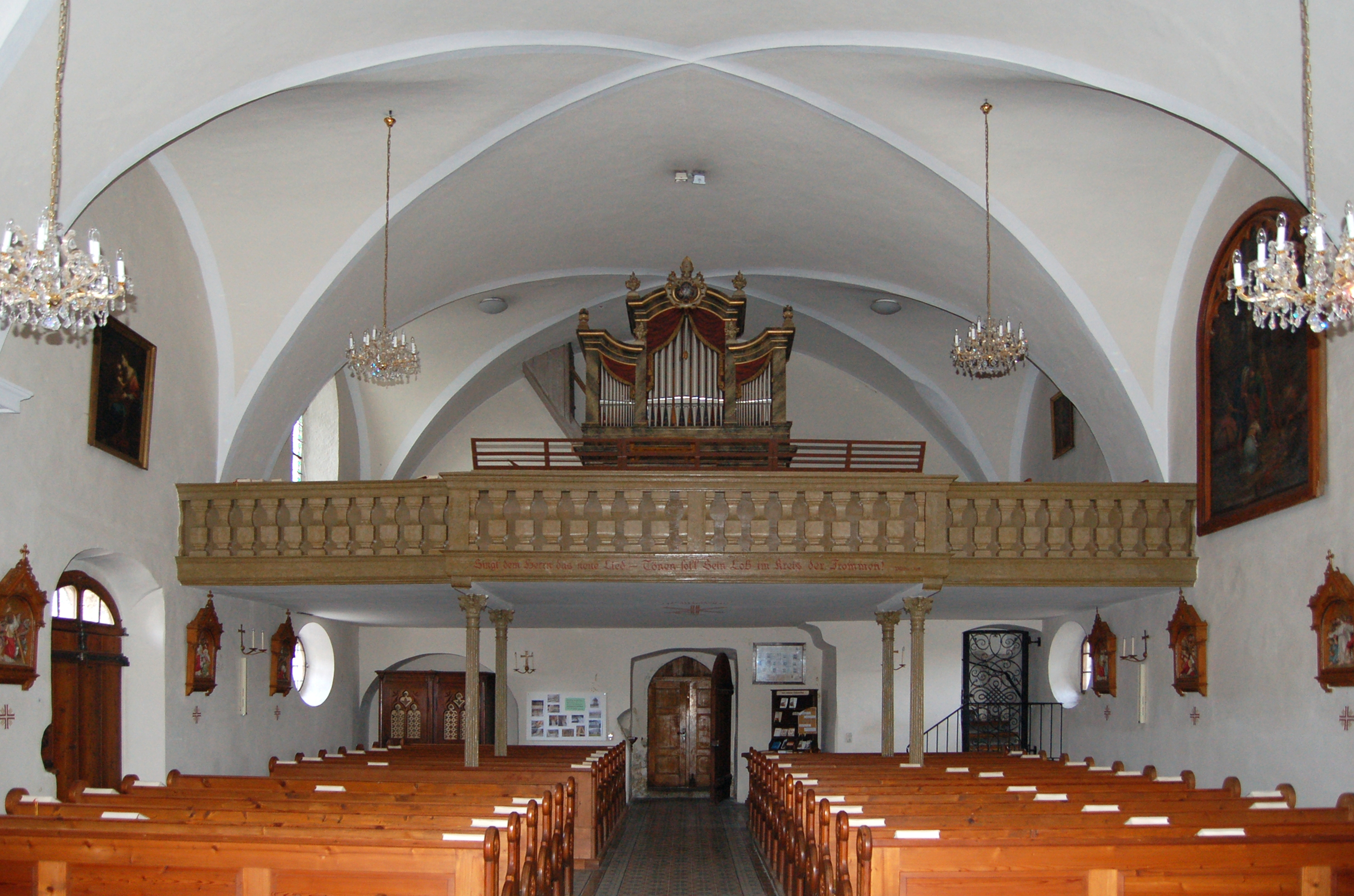 The parish church Kreuzerhöhung in Heiligenkreuz, Micheldorf in Oberösterreich, Upper Austria, is protected as a cultural heritage monument. Interior with organ.